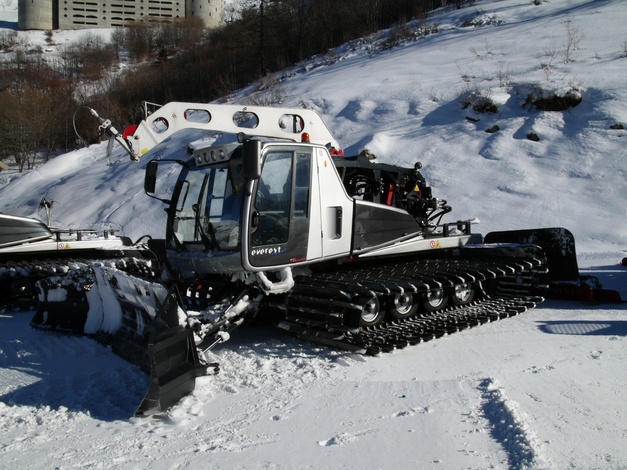 Snow grooming Everest power builded by Prinoth, here to Valmeinier, Savoie, France